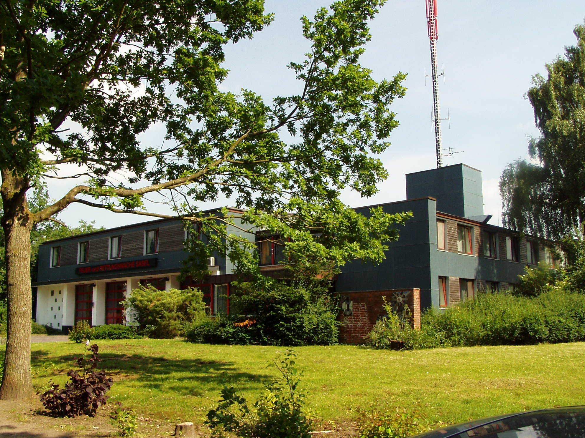 Main fire station in Hamburg-Sasel, Germany